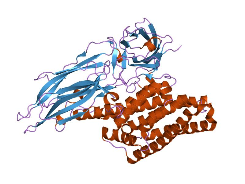 Cartoon representation of the molecular structure of protein registered with 1ji6 code.